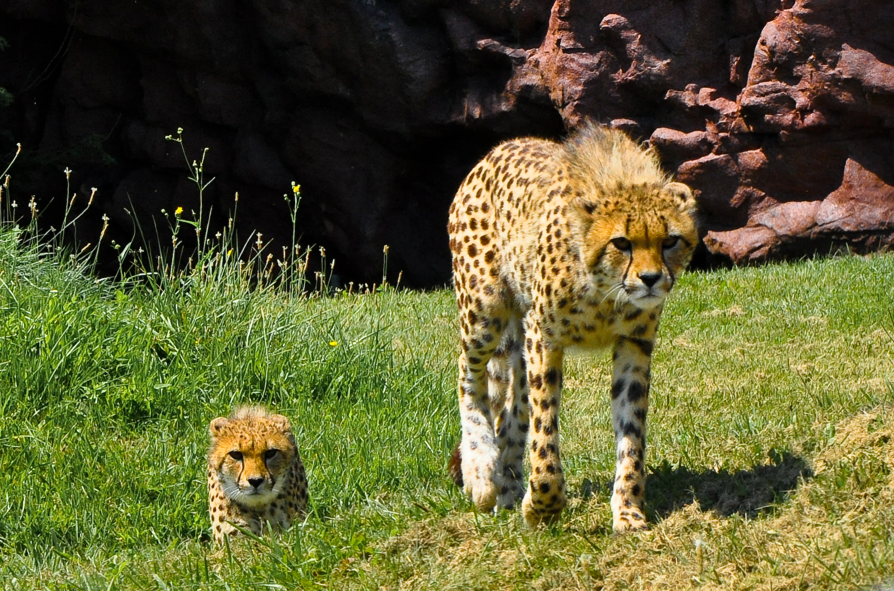 A cheetah at Toronto Zoo, Ontario, Canada.